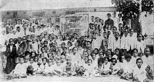 Ki Hadjar Dewantara with students of Taman Siswa